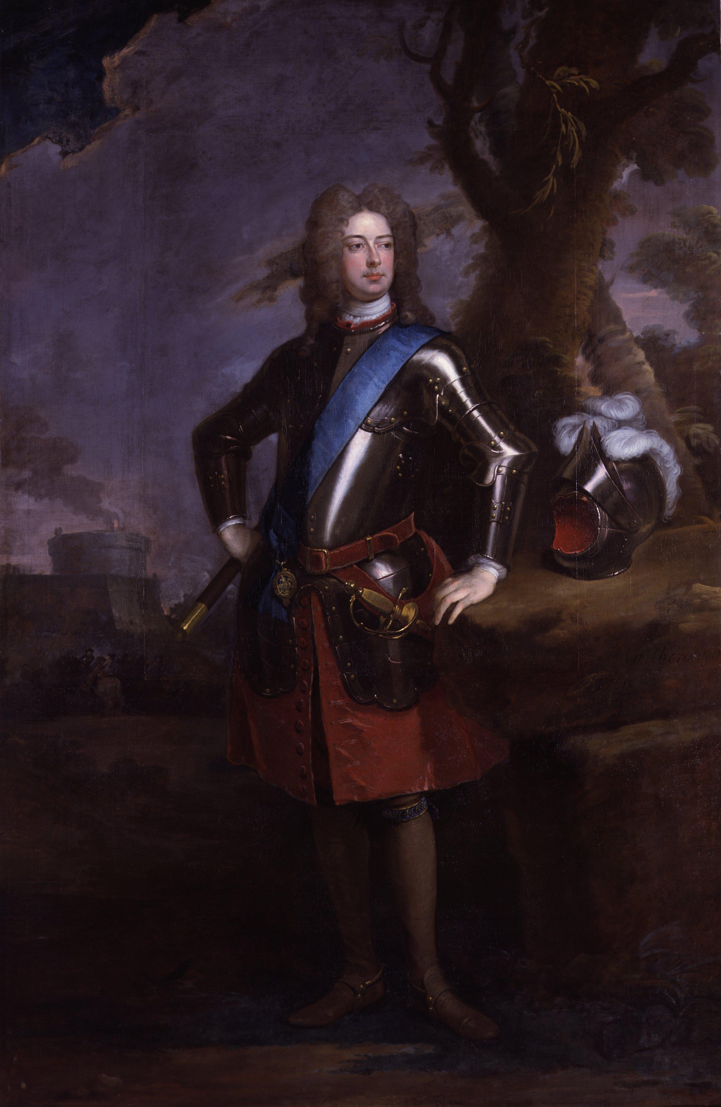 John Churchill, 1st Duke of Marlborough, by Sir Godfrey Kneller, Bt and studio. All images in this batch have a known author, but have manually examined for strong evidence that the author was dead before 1939, such as approximate death dates, birth dates, floruit dates, and publication dates.